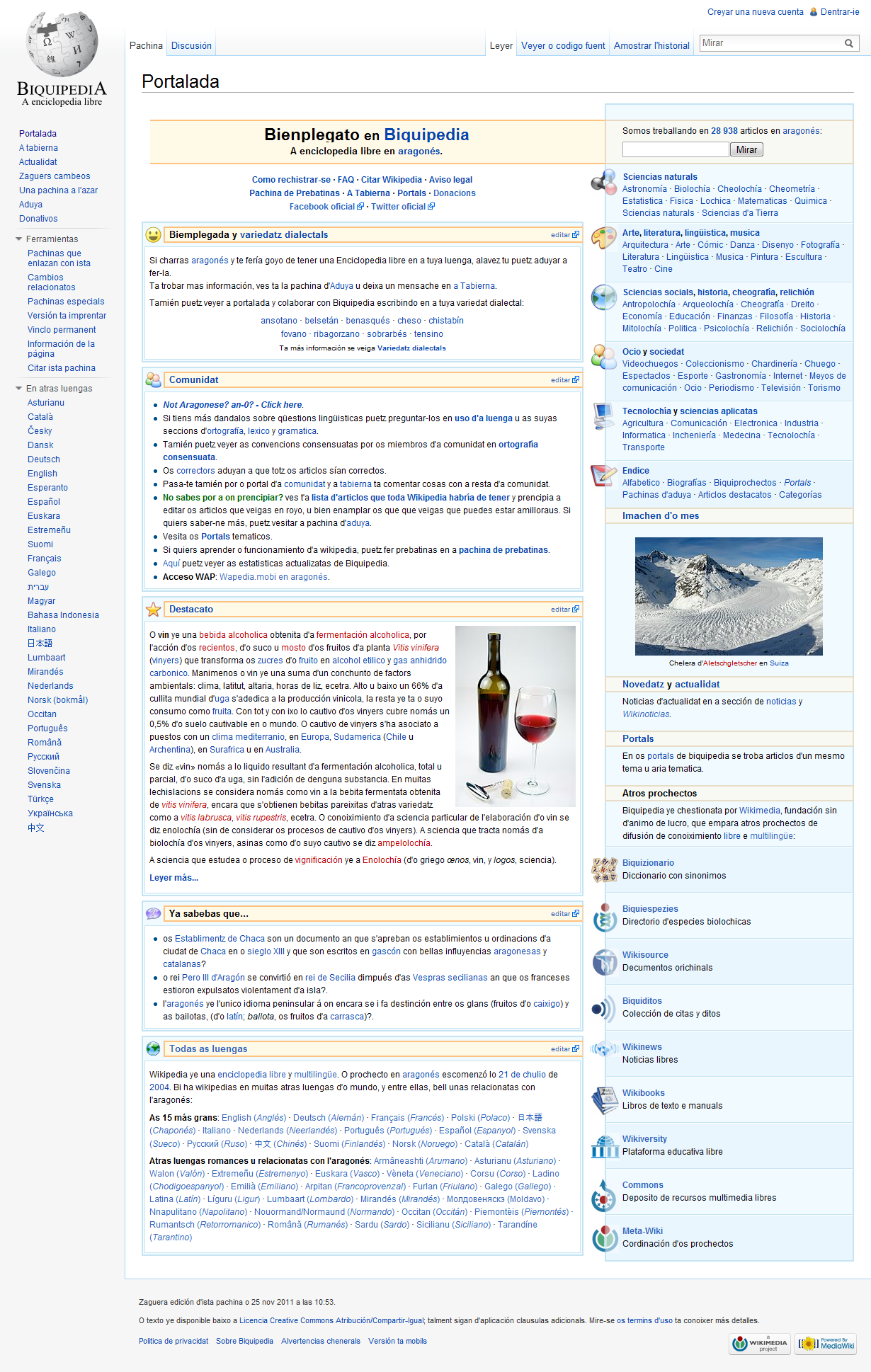 Screenshot of Aragonese Wikipedia on 16 January, 2013; Opera web browser